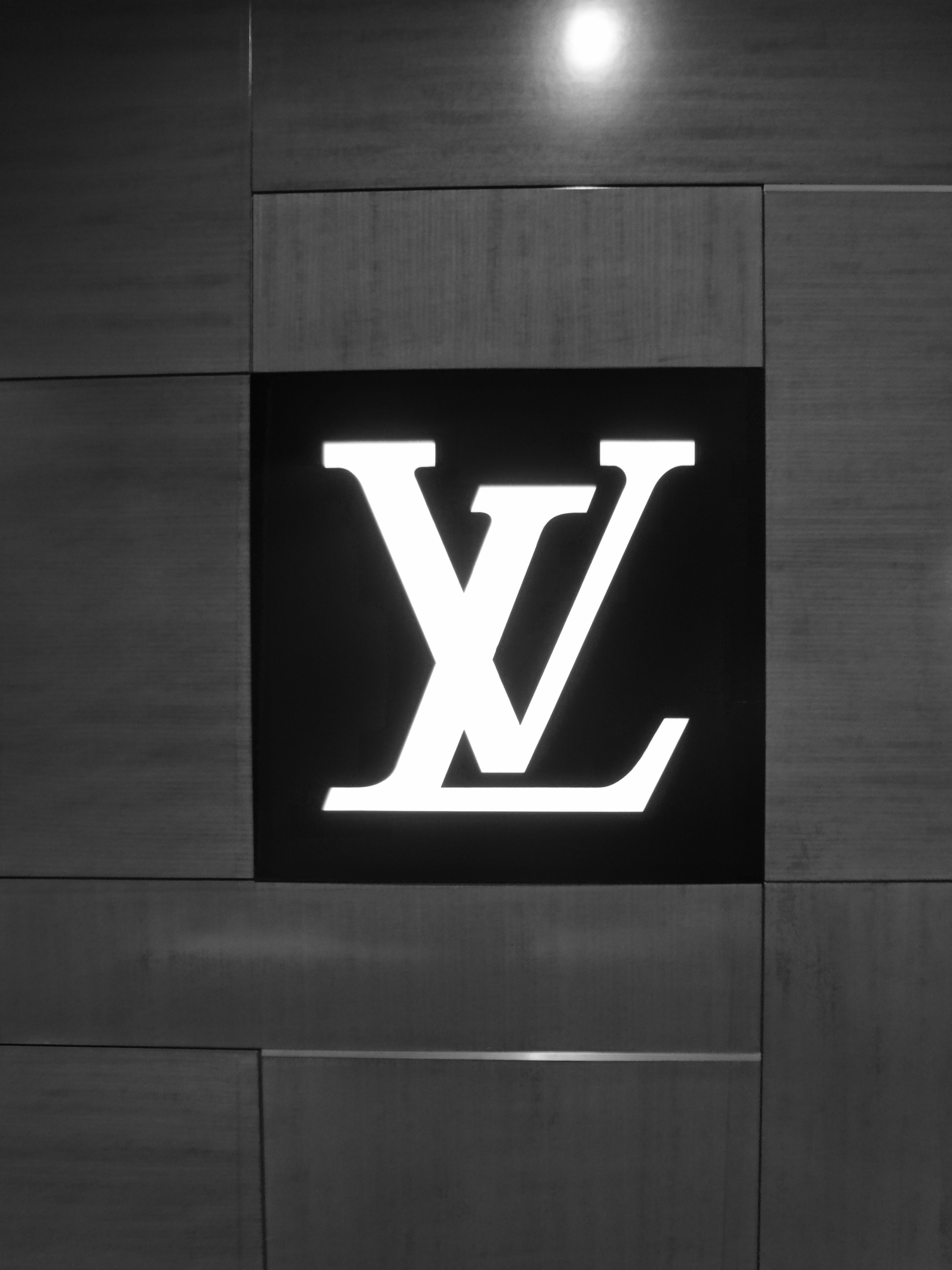 Photography by David Adam Kess Louis Vuitton or shortened to LV, is a French fashion house founded in 1854 by Louis Vuitton Photography by david adam kess, madrid 2016